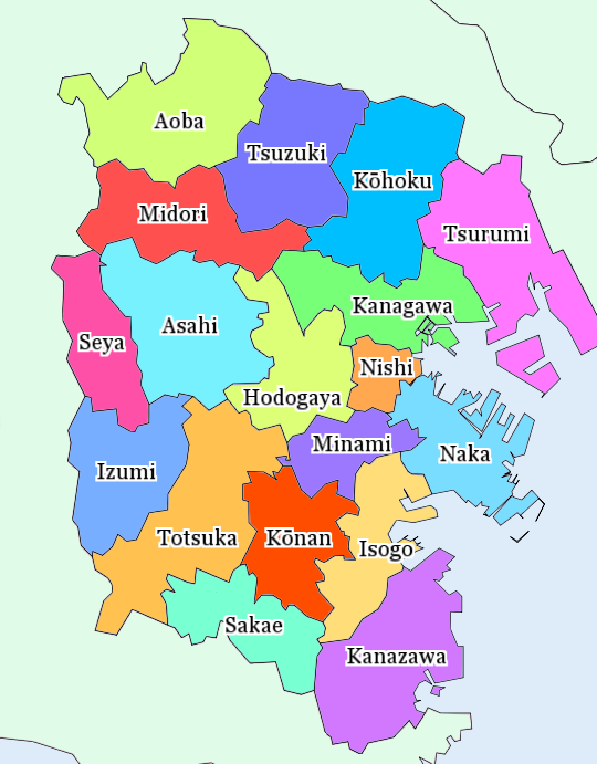 Map of wards of Yokohama